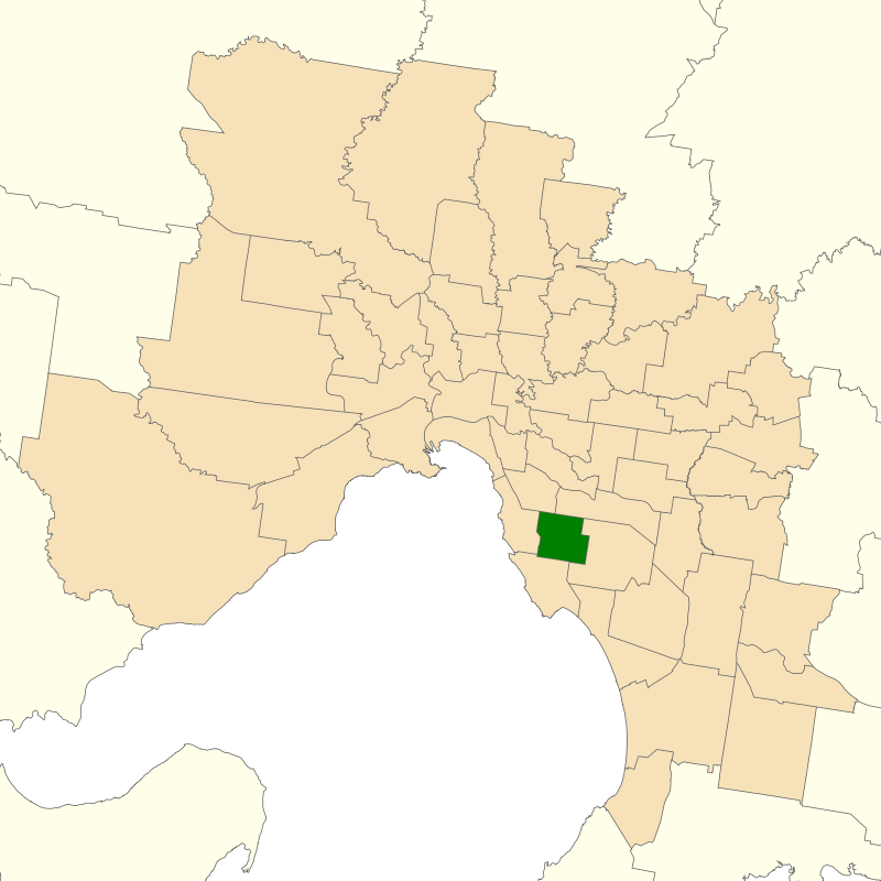 Location of the Victorian electoral district of Bentleigh (dark green) in the Greater Melbourne area.